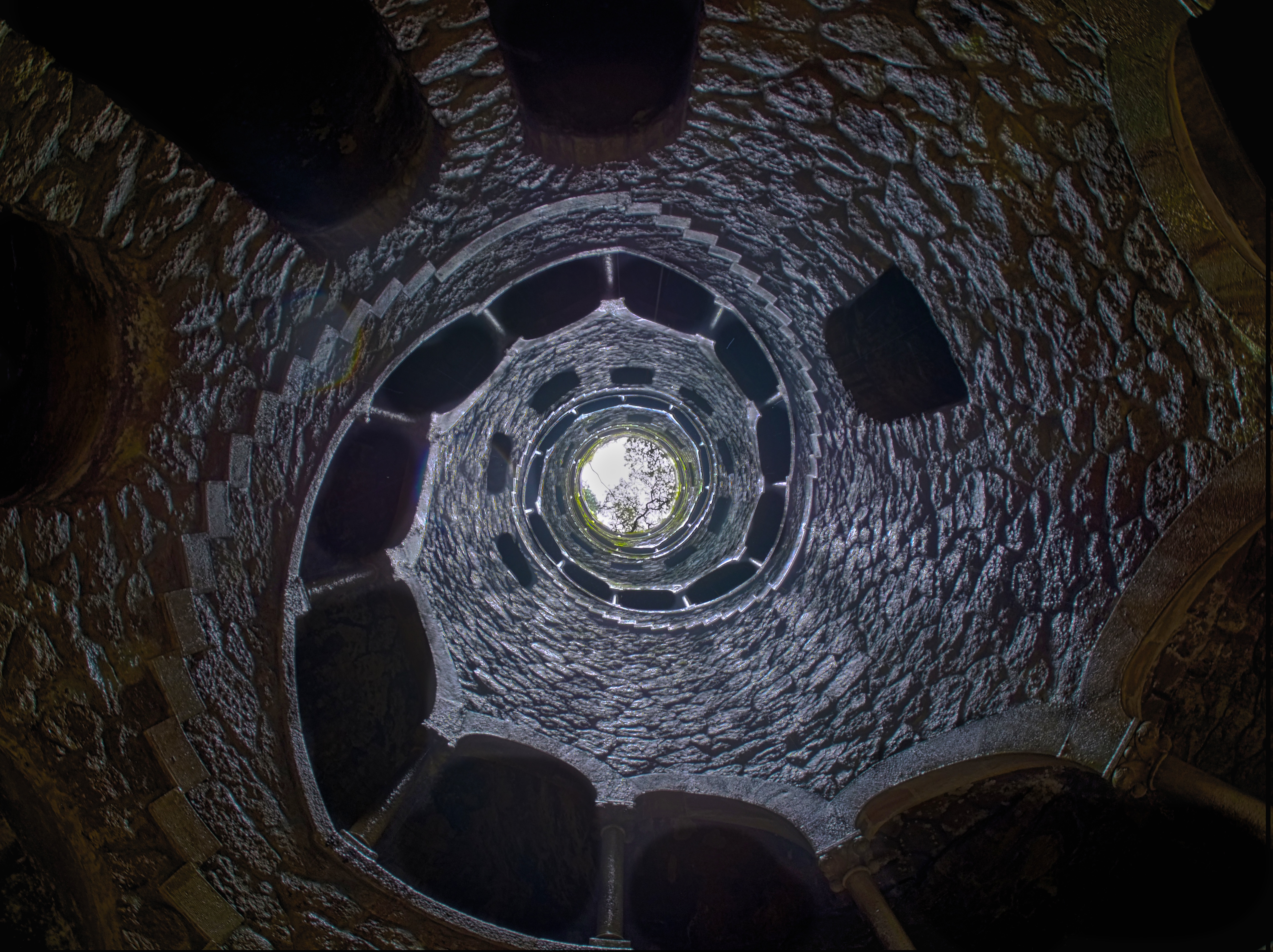 Viewing the sky from the bottom of the initiation well at Quinta da Regaleira; HDR